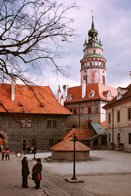 Český Krumlov